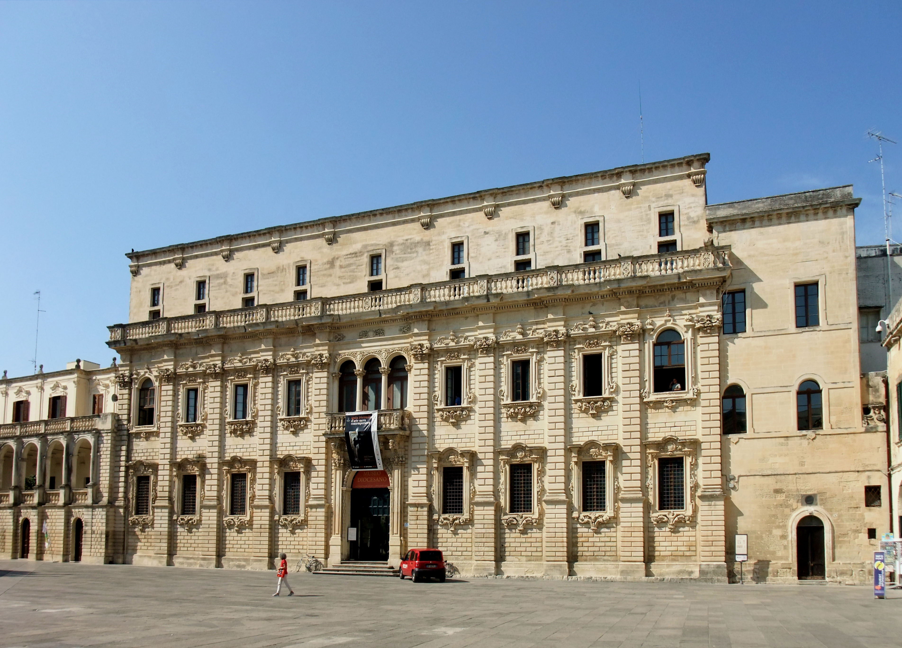 Seminario, Piazza del Duomo, in Lecce, town in Apulia, southern Italy